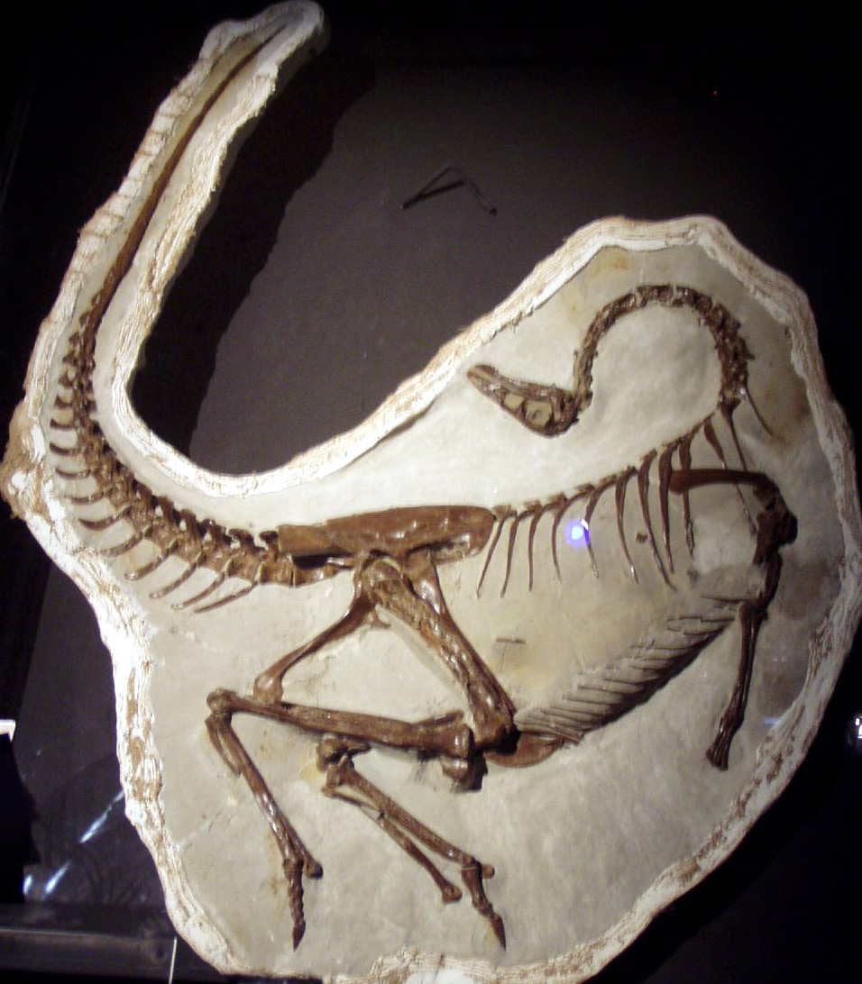 Fossil specimen of Ornithomimus sp. (TMP 1995.110.1), Royal Tyrrell Museum. This specimen was recovered from the middle Dinosaur Park Formation of Alberta, Canada.